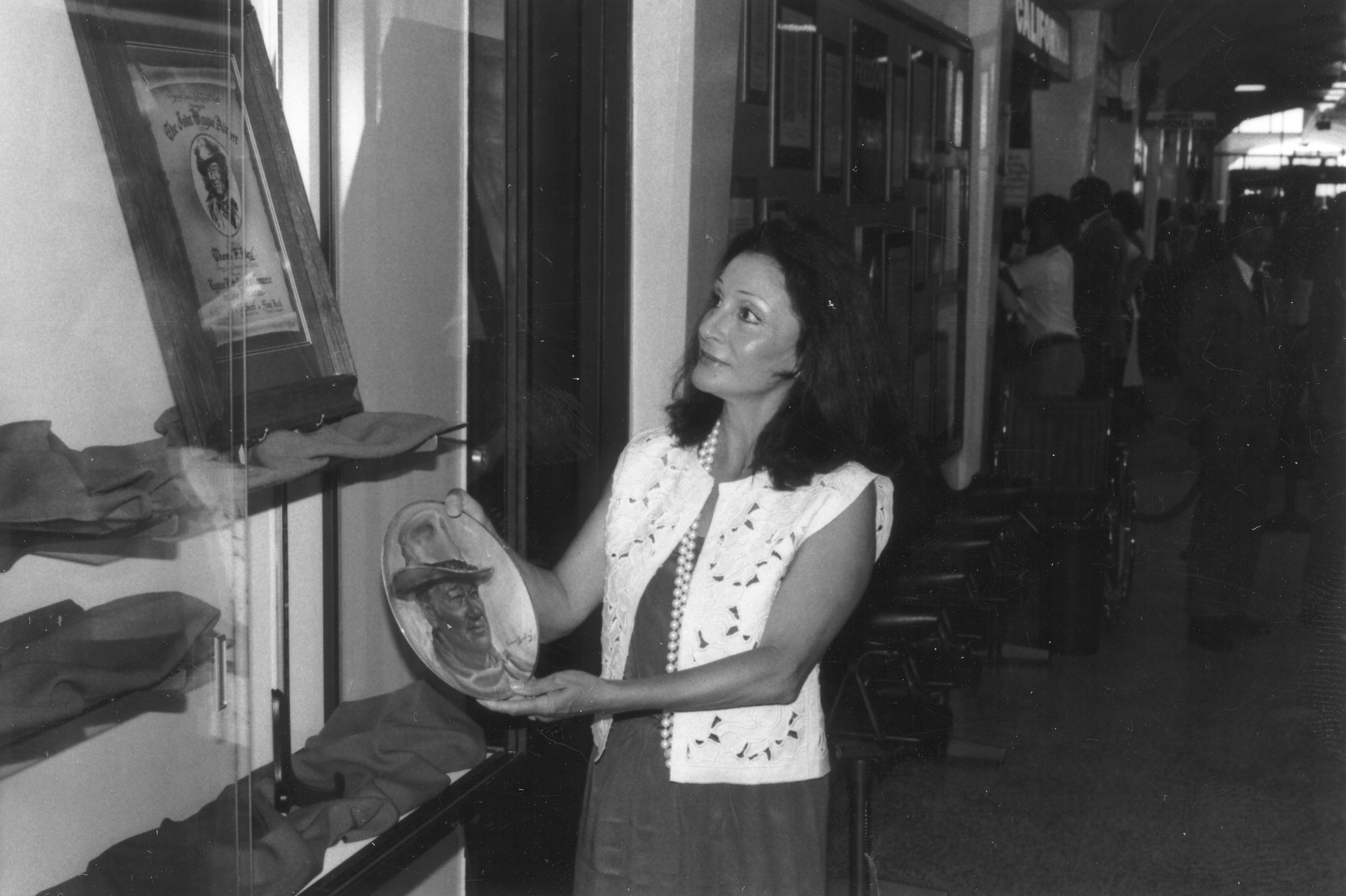 There are no known copyright restrictions on this image. All future uses of this photo should include the courtesy line, "Photo courtesy Orange County Archives." Comments are welcome after reading our Comment Policy .